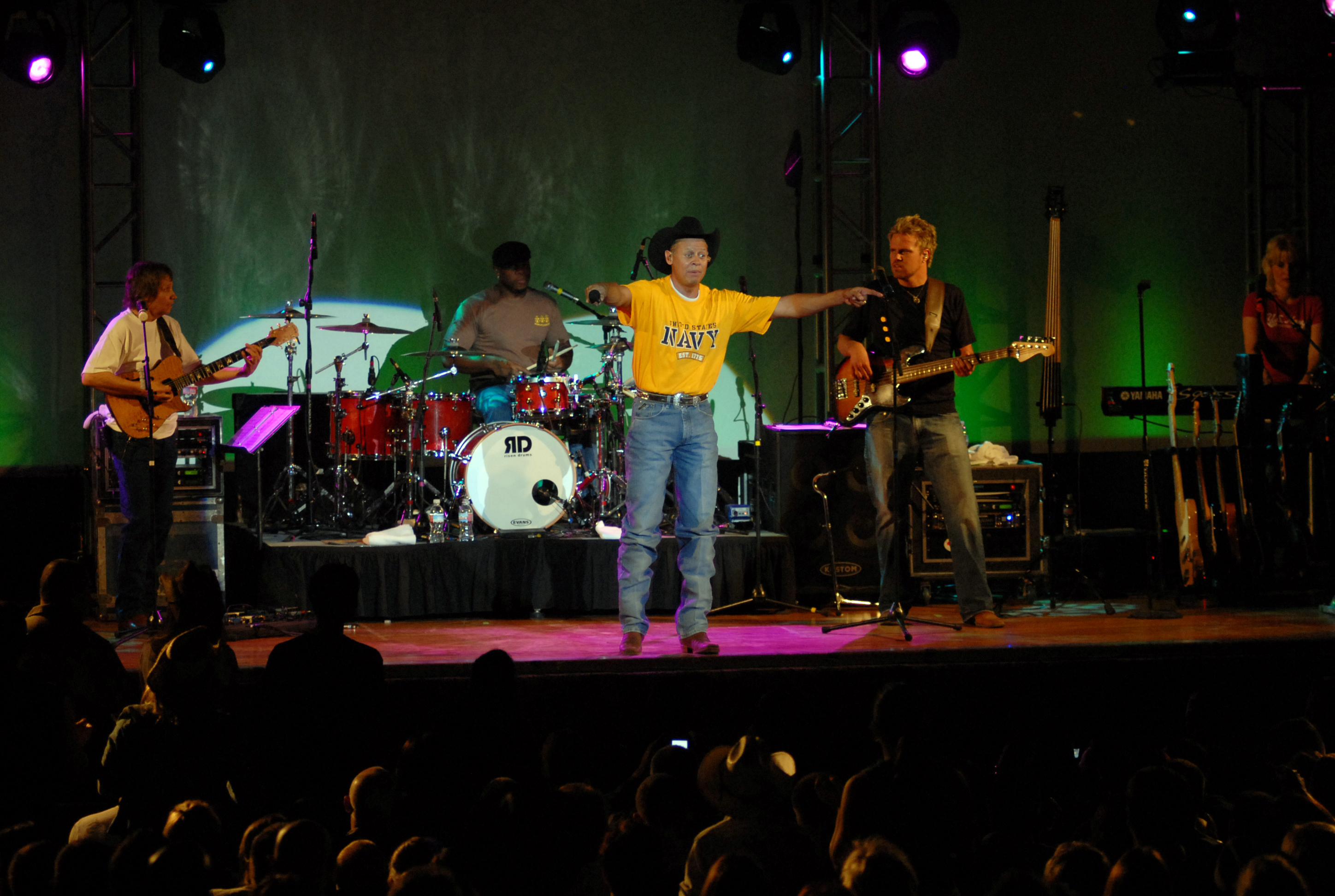 090401-N-5471P-004 VENTURA COUNTY, Calif. (April 1, 2009) Country music star Neal McCoy performs a free concert for military personnel and dependents in Needham Theater at Port Hueneme, CA, during the "Spirit of America Tour" sponsored by the California-based Robert and Nina Rosenthal Foundation. The Spirit of America Tour was created in 2002 to bring headline entertainers to stateside military bases to boost the morale of the men, women and families of the Armed Forces. The tour has arranged more than 110 concerts.